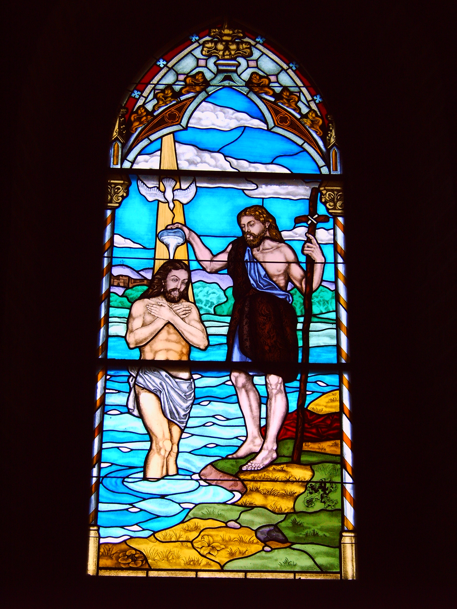 Poland, Mielno, church, stained glass - The Baptism of Christ